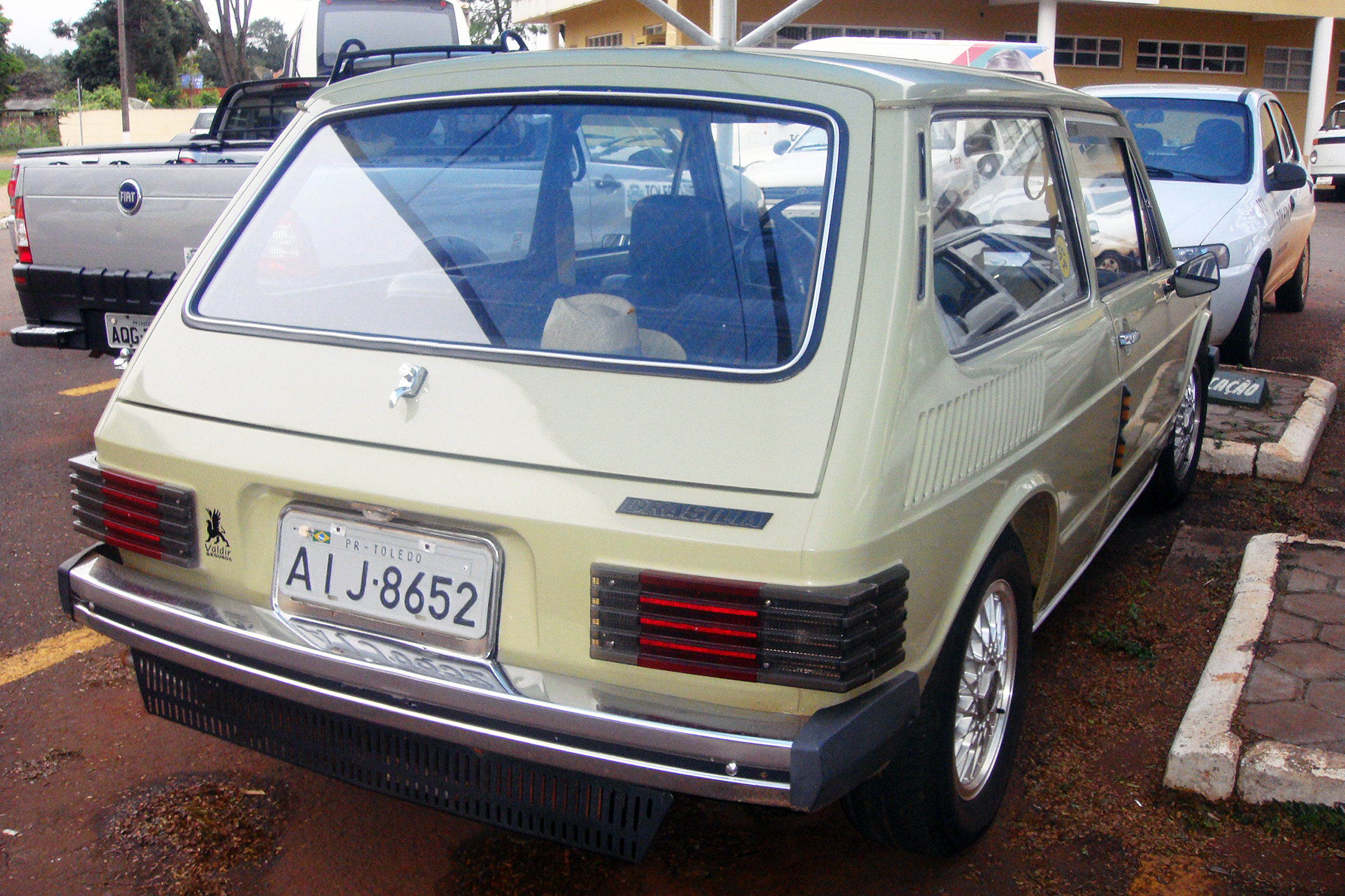 Neat ethanol-powered VW Brasilia, Toledo, Parana, Brazil